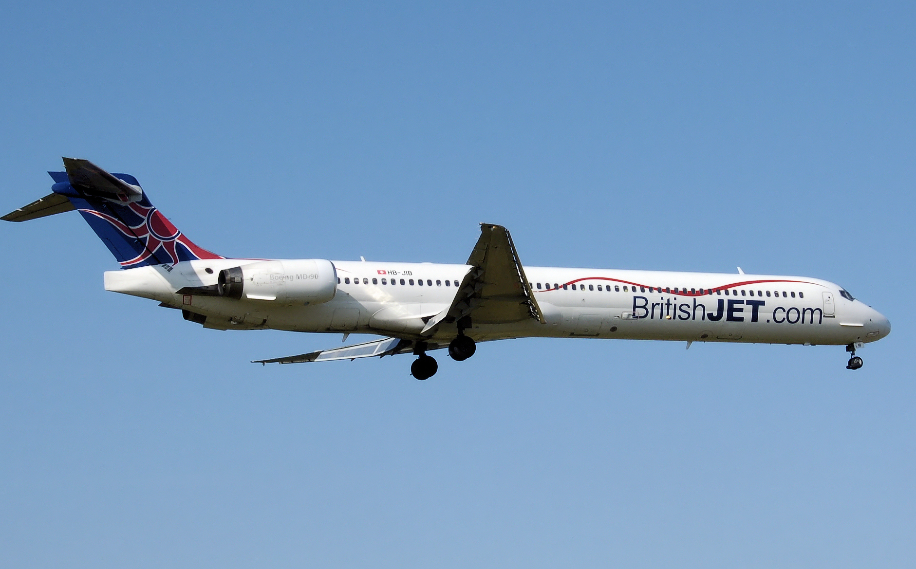 BritishJET McDonnell Douglas MD-90-30 (Swiss registration HB-JIB) landing at Birmingham International Airport, England.